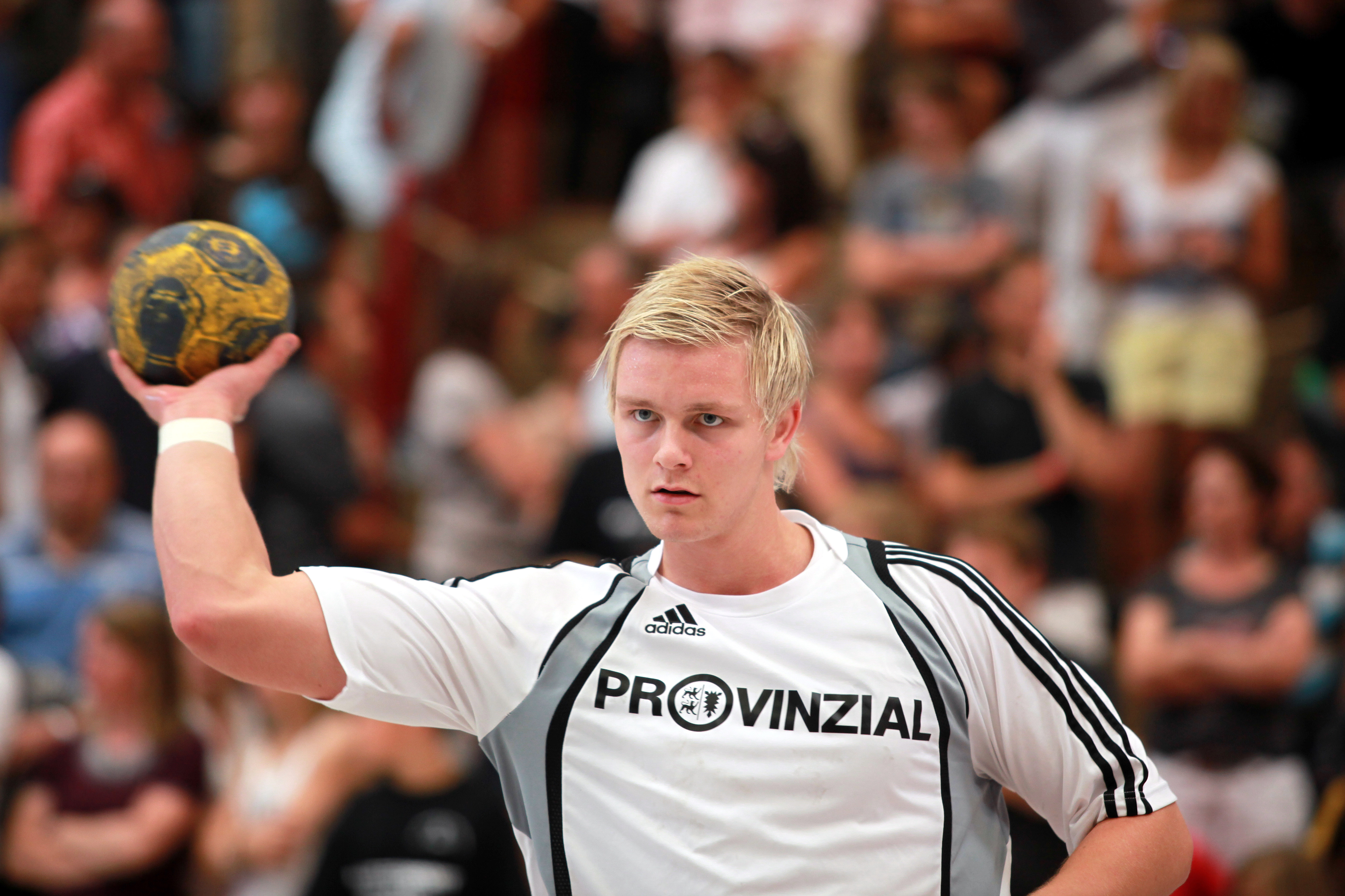 Aron Pálmarsson, Icelandic handball player from THW Kiel, in Ehingen (Germany), during Schlecker Cup 2009.